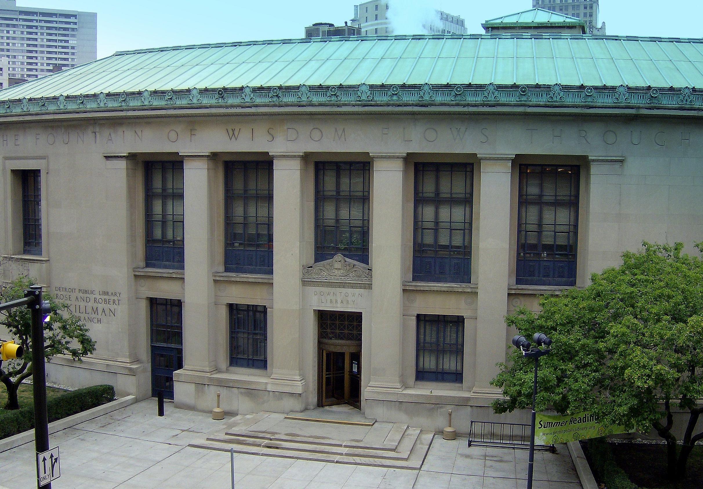 The first public library branch in Detroit history, now called Skillman